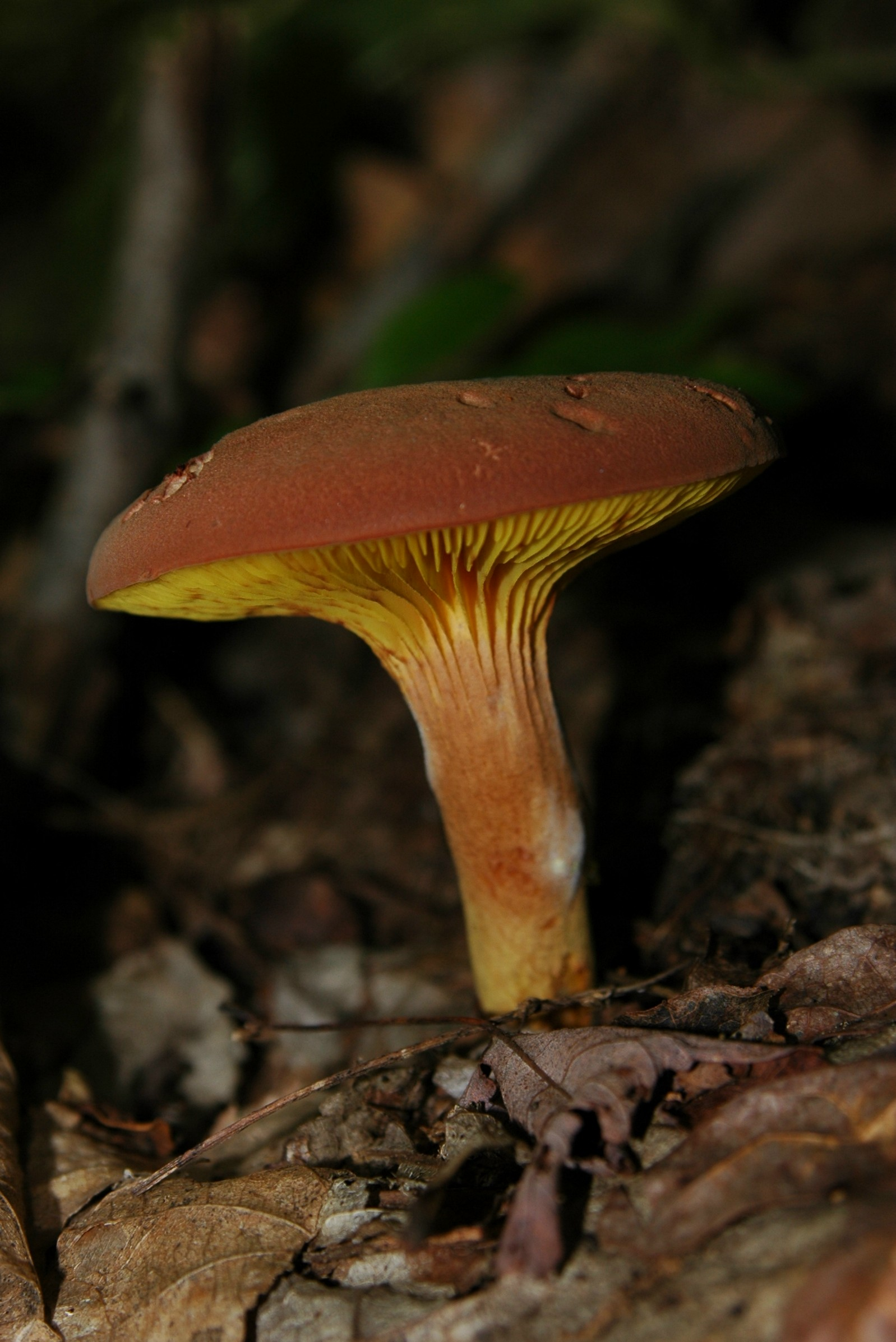 Phylloporus leucomycelinus Singer Image location: Westmoreland Co., Pennsylvania, USA Recognized by sight For more information about this, see the observation page at Mushroom Observer.